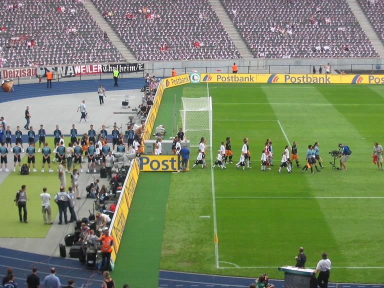 Final of the Women's German Cup 2007 in the Olympiastadion Berlin between the 1. FFC Frankfurt and the FCR 2001 Duisburg 5:2 P.